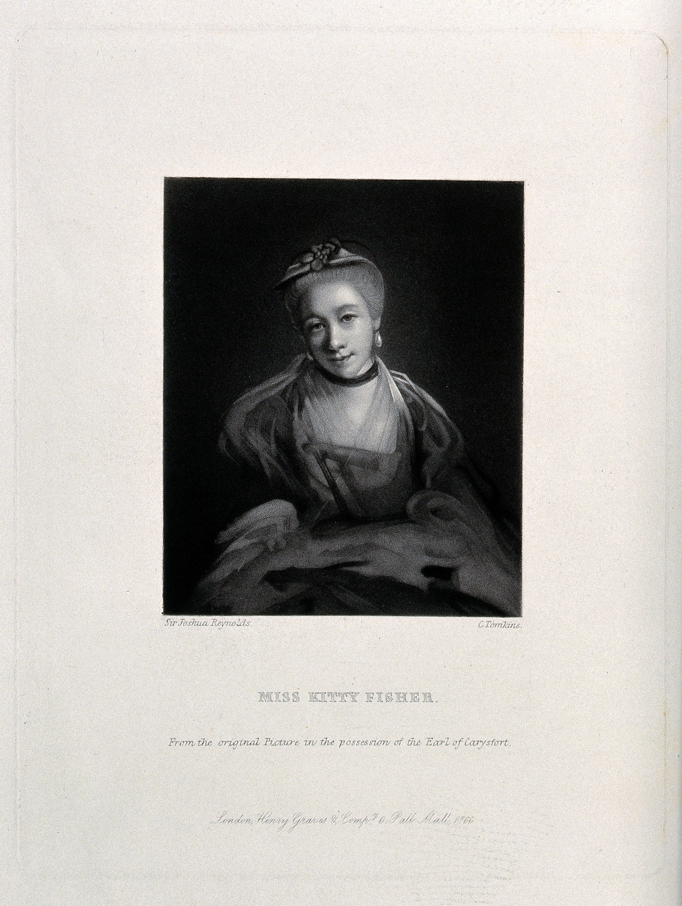 A portrait of Miss Kitty Fisher. Mezzotint by C. Tomkins after Sir J. Reynolds. Iconographic Collections Keywords: Joshua Reynolds; Catherine Maria Fisher; Charles Tomkins